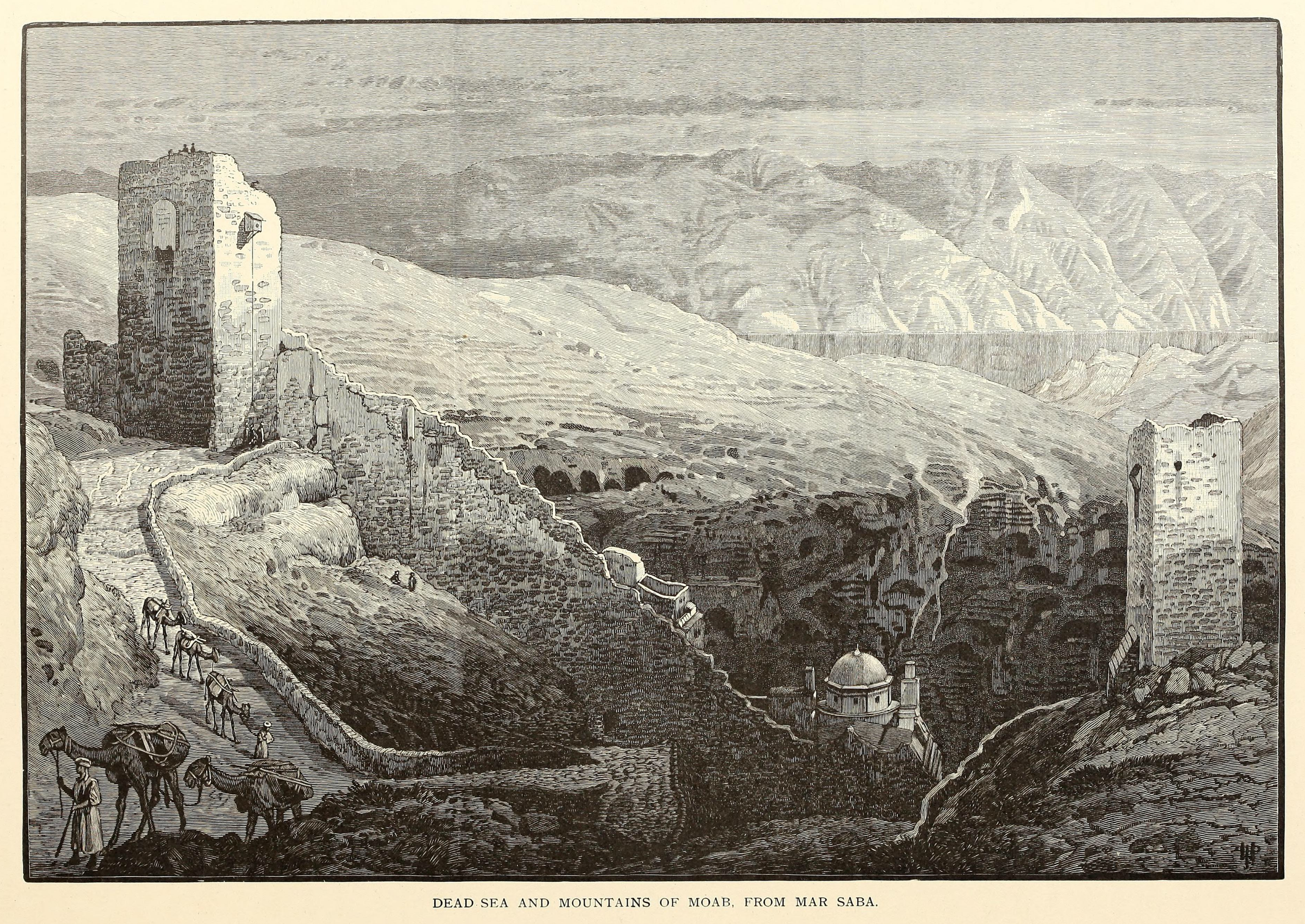 Caption: dead sea and mountains of moab, from mar saba.